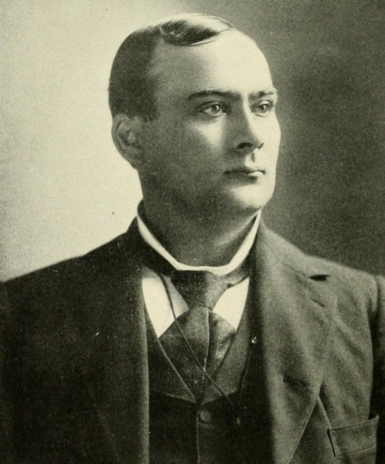 Roderick Dhu Sutherland, attorney and US Congressman from Nebraska.